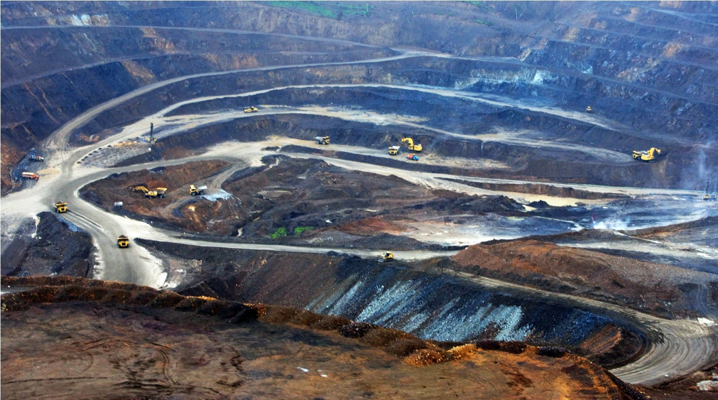 Polymetal's open pit mine at the Albazino deposit in the Khabarovsk region of the Russian Far East